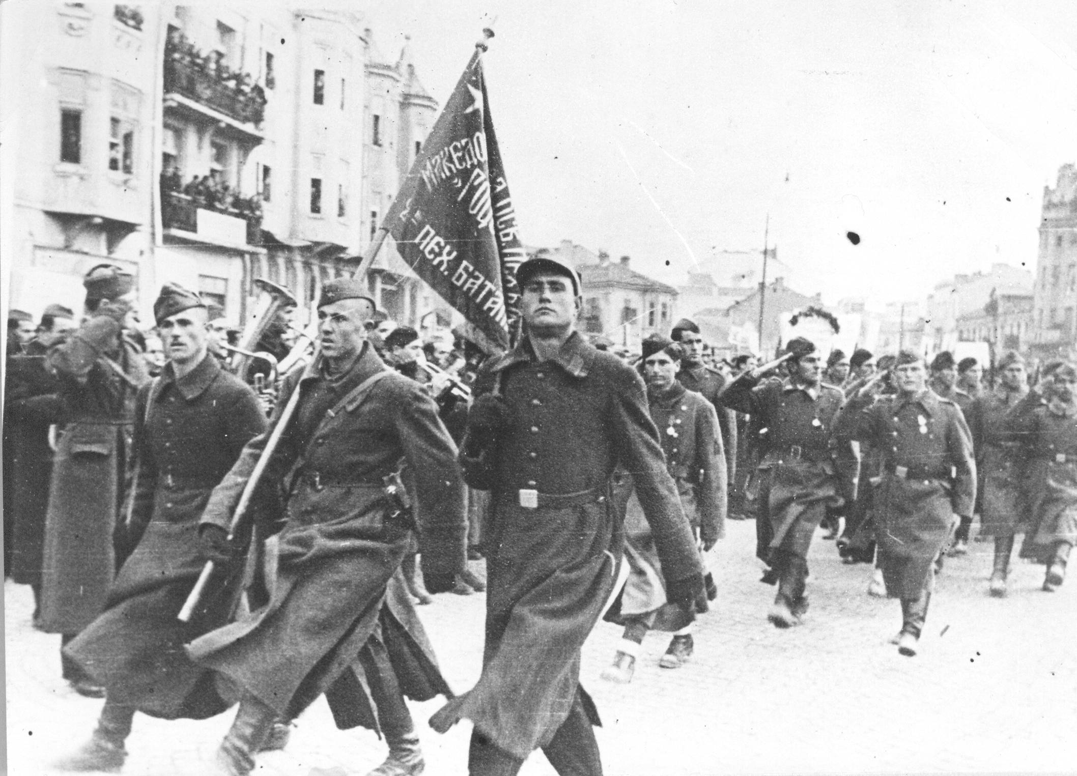 Partisans of the Goce Delčev Brigade marching through the center of liberated Skopje in November 1944.